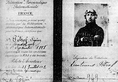 Pilot license of early Bulgarian aviator Simeon Petrov (1888-1950)